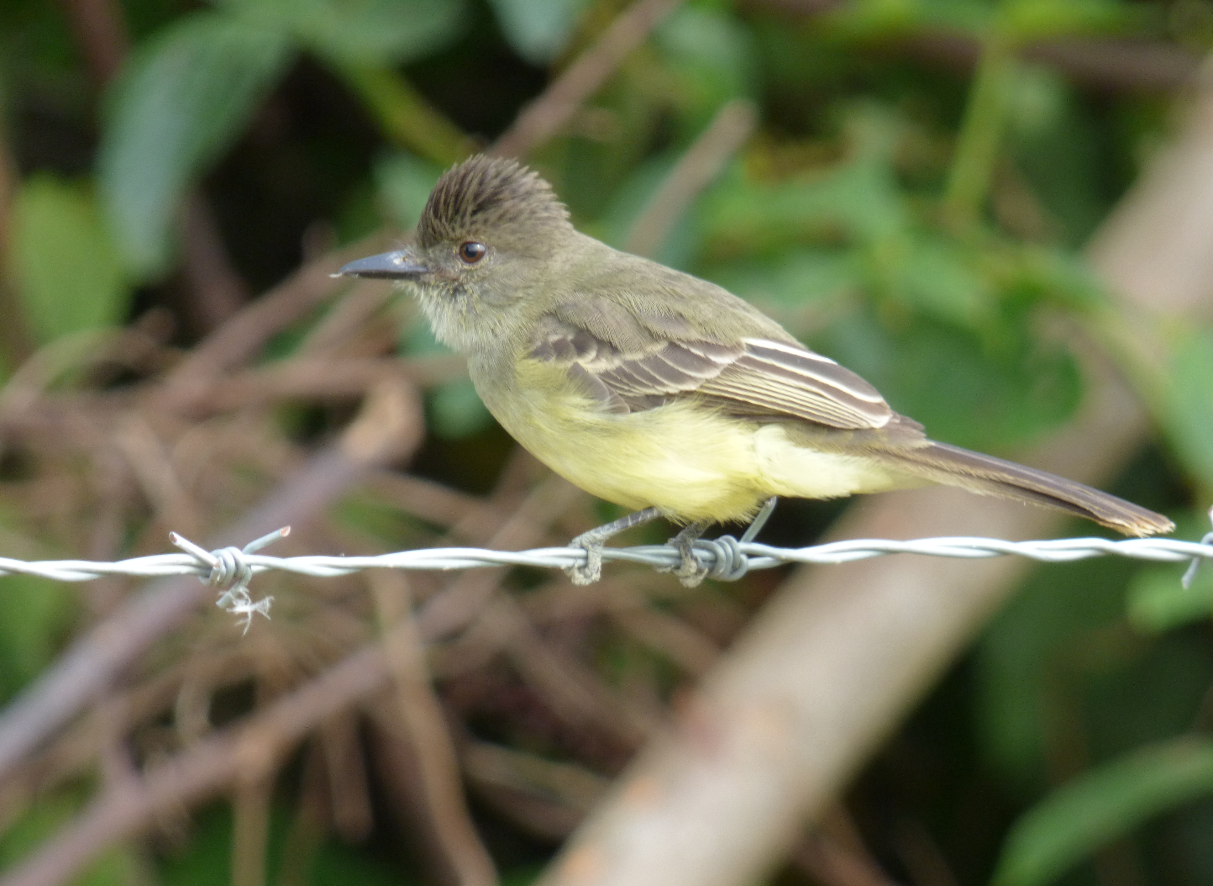 Myiarchus apicalis (Atrapamoscas apical)